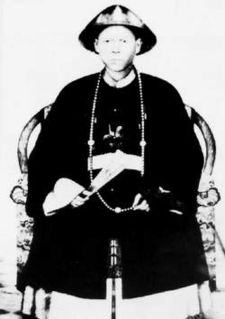 Founder and Propeller of Modern Kuala Lumpur